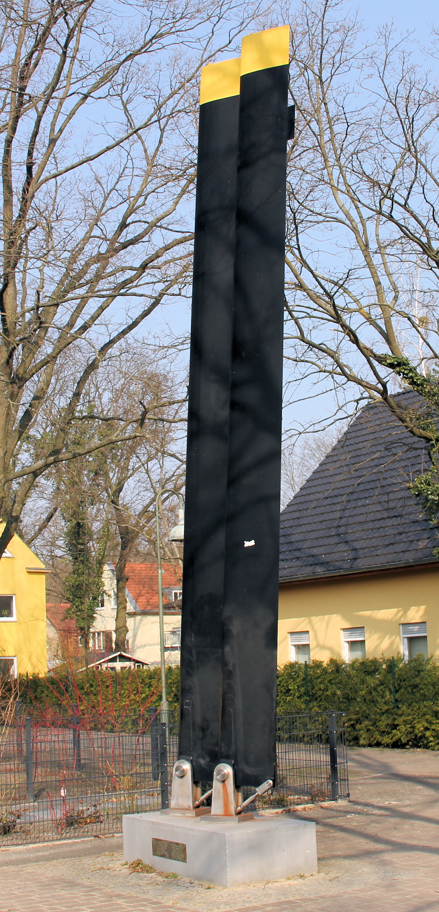 Memorial, Hubschrauberlandeplatz Steinstücken, 1976, Am Landeplatz, Berlin-Wannsee, Germany